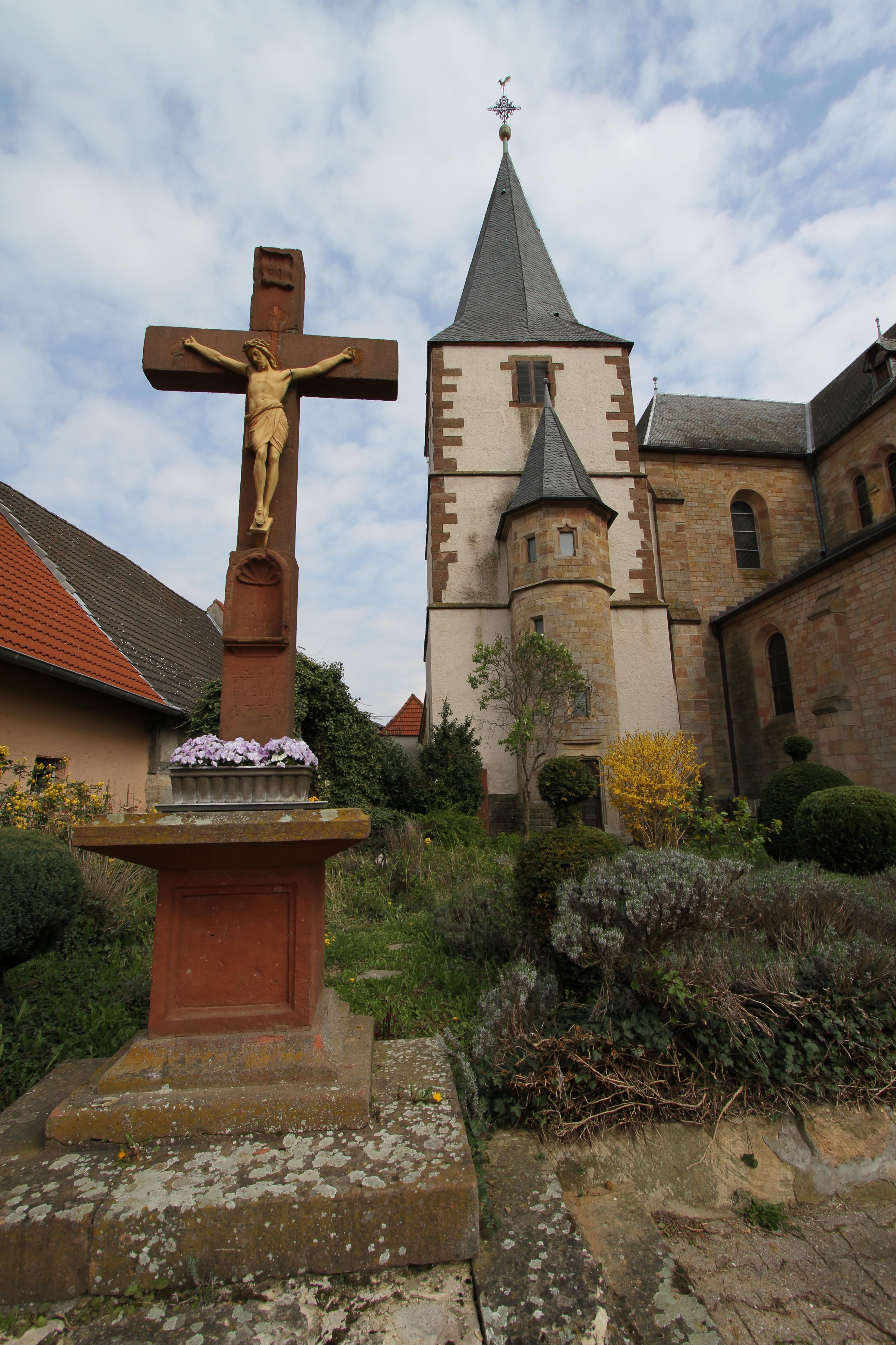 Church of Saint George in Landau in der Pfalz-Arzheim.